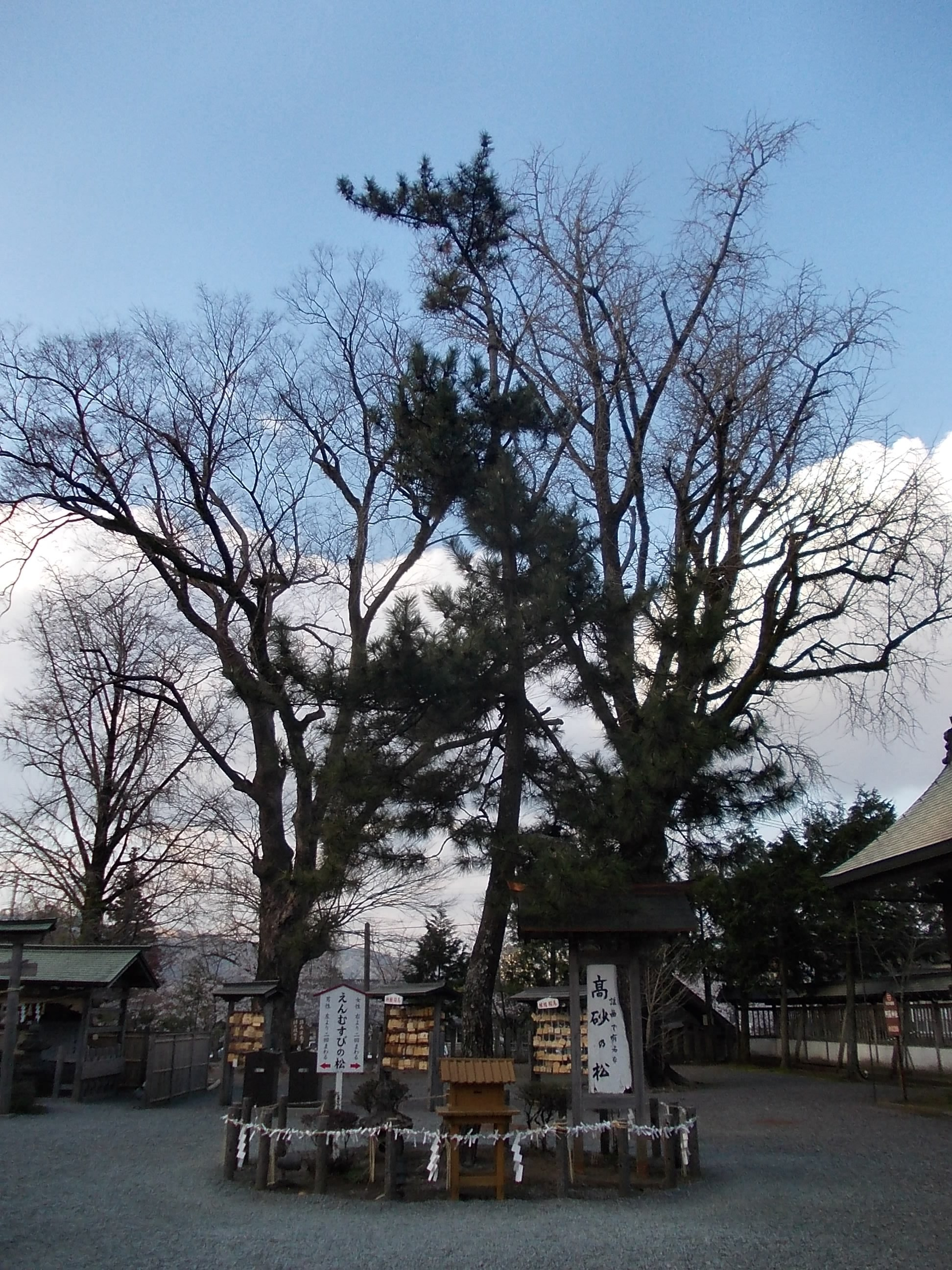 Enmusubi-no-matsu or pines of marriage in Aso Jinja, Kumamoto, Japan.